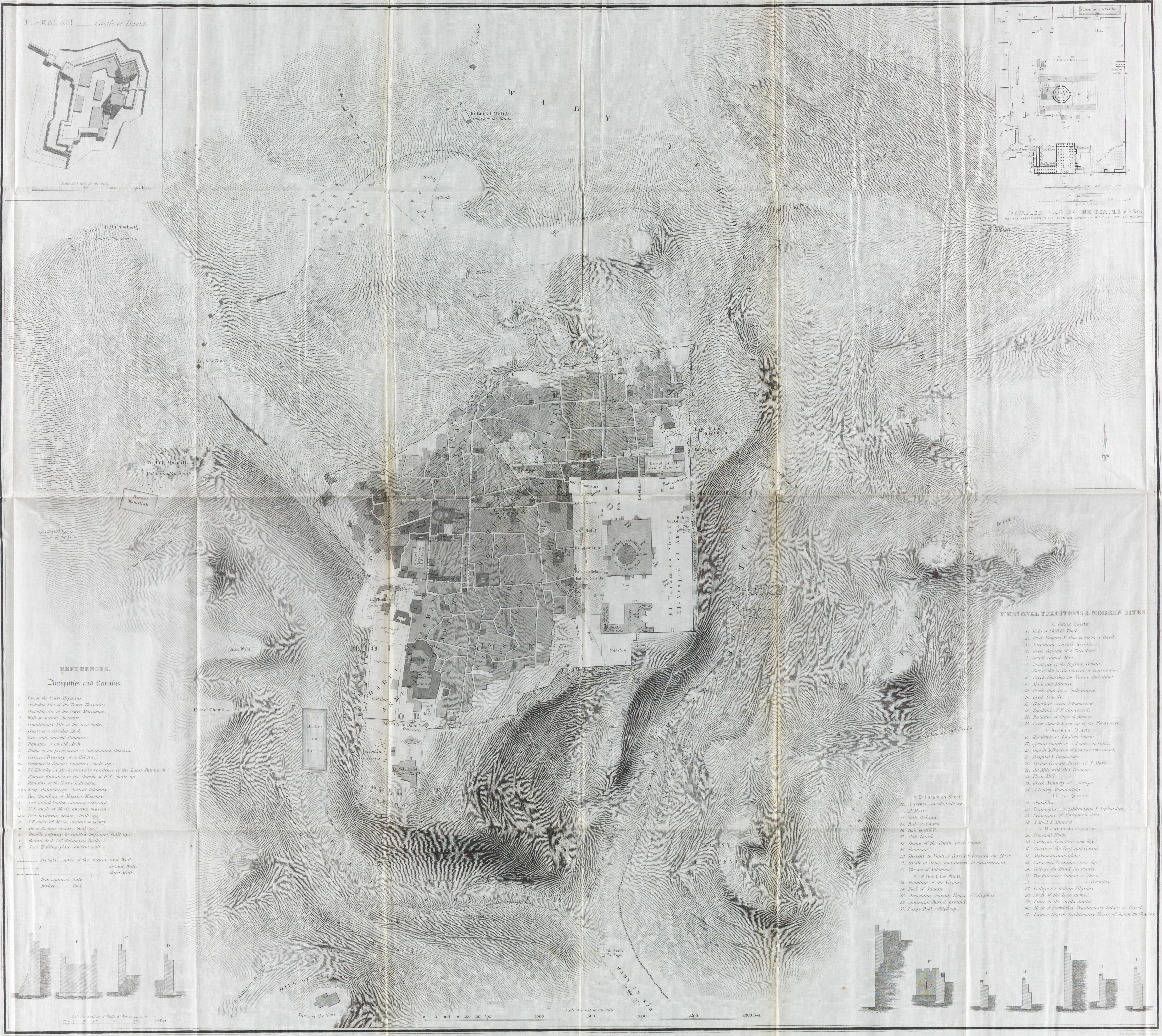 Plan of the town and environs of Jerusalem From the original drawing of the survey made in the month of March 1841 by Lieutts. Aldrich and John Frederick Anthony Symonds The writings added by the Revd. Garth Williams and the Revd. Robert Willis. Engraved by Joseph Wilson Lowry Copied by Permission of Field Marshal the Marquis of Anglesey, K.G. G.C.H. Master General of the Ordnance, from the original drawing of the survey made in the month of March 1841 1849 (dated) 28 x 29 in (71.12 x 73.66 cm) 1 : 4800